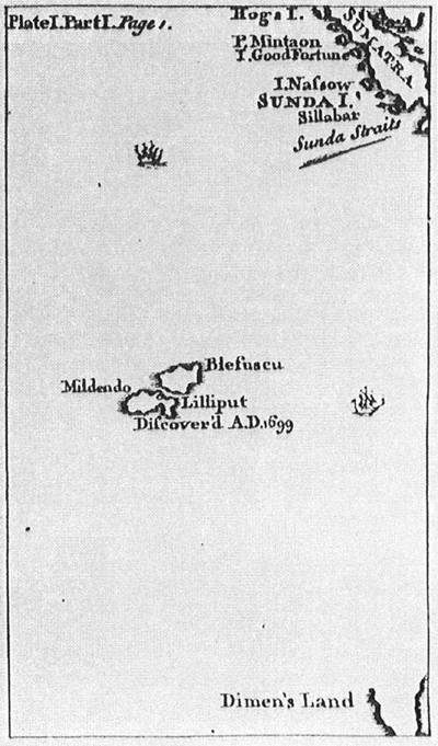 Map of Lilliput, for the 1726 edition of Jonathan Swift's Gulliver's Travels (or, Travels into Several Remote Nations of the World, 1726). Lilliput is situated south of Sumatra and north of "Dimen's Land" (Van Diemen's Land (Tasmania)?). Real islands in the far neigbourhood are nowadays the Cocos (Keeling) Islands (Australia) and Christmas Island (Great-Britain) and further south the pair Île Amsterdam (Amsterdam Island, Amsterdam or Nieuw-Amsterdam) and Île Saint-Paul at a distance of 85 km, which resemble the pair Blefuscu and Lilliput in the novel Gulliver's Travels.